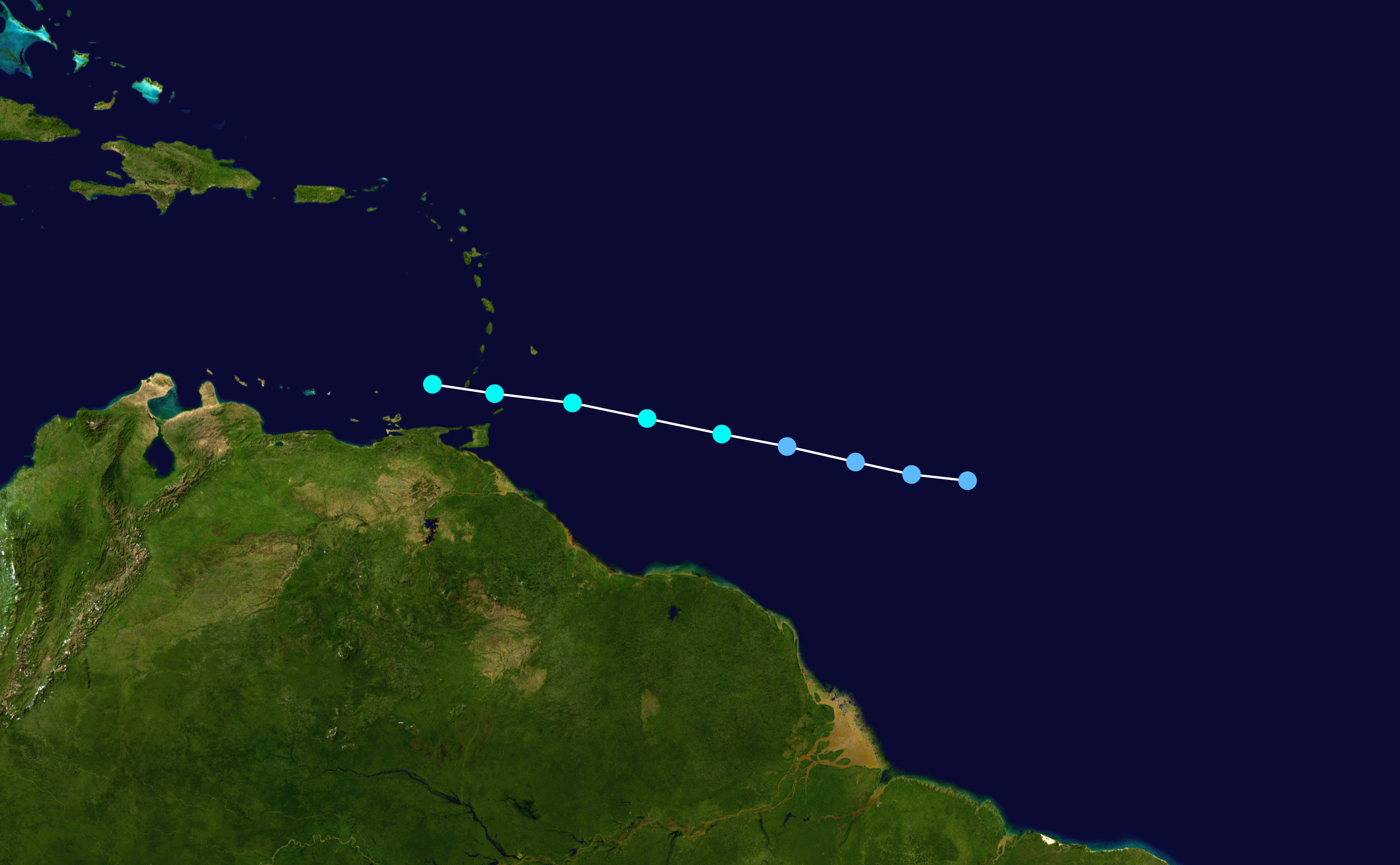 Track map of Tropical Storm Earl of the 2004 Atlantic hurricane season. The points show the location of the storm at 6-hour intervals. The colour represents the storm's maximum sustained wind speeds as classified in the Saffir–Simpson scale (see below), and the shape of the data points represent the nature of the storm, according to the legend below. Saffir–Simpson scale Tropical depression≤38 mph≤62 km/h Category 3111–129 mph178–208 km/h Tropical storm39–73 mph63–118 km/h Category 4130–156 mph209–251 km/h Category 174–95 mph119–153 km/h Category 5≥157 mph≥252 km/h Category 296–110 mph154–177 km/h Unknown Storm type Tropical cyclone Subtropical cyclone Extratropical cyclone / Remnant low / Tropical disturbance / Monsoon depression